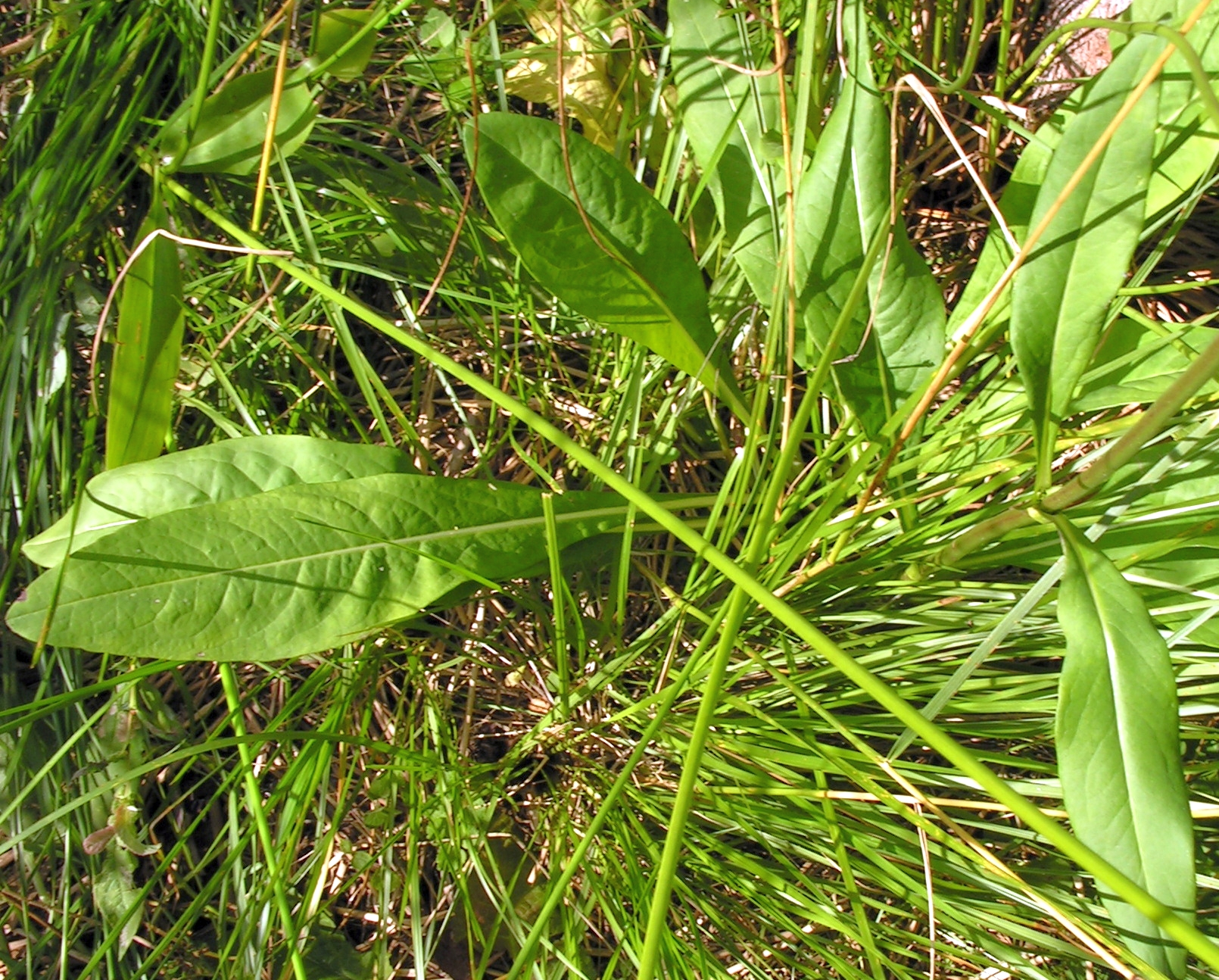 The leaves of the devil's bit scabious (Succisa pratensis). Moscow region, Russia.